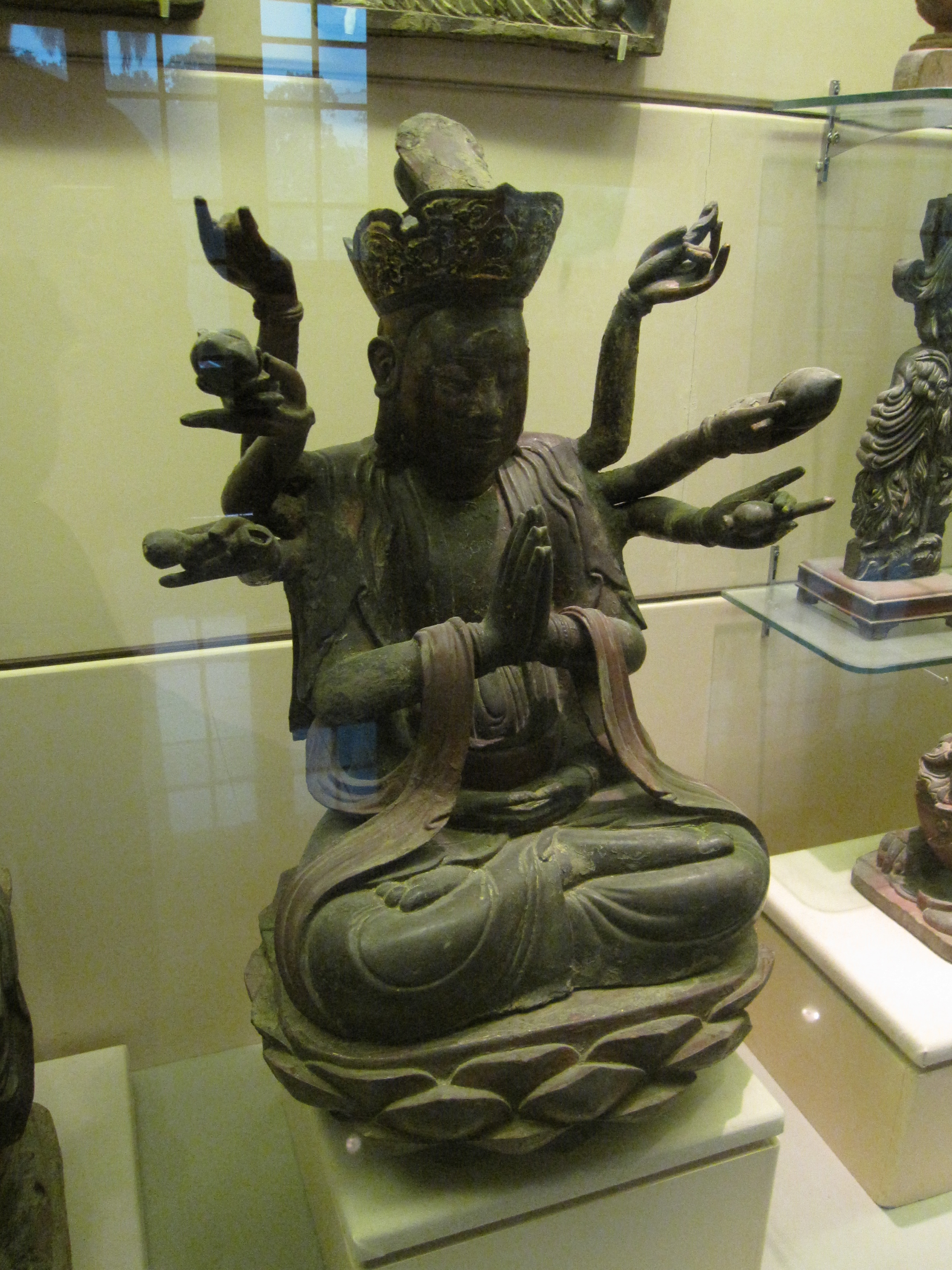 Statue of Avalokiteshvara Bodhisattva. Crimson and gilded wood, Mạc dynasty, 16th century. Statue of worship. National Museum of Vietnamese History, Hanoi.